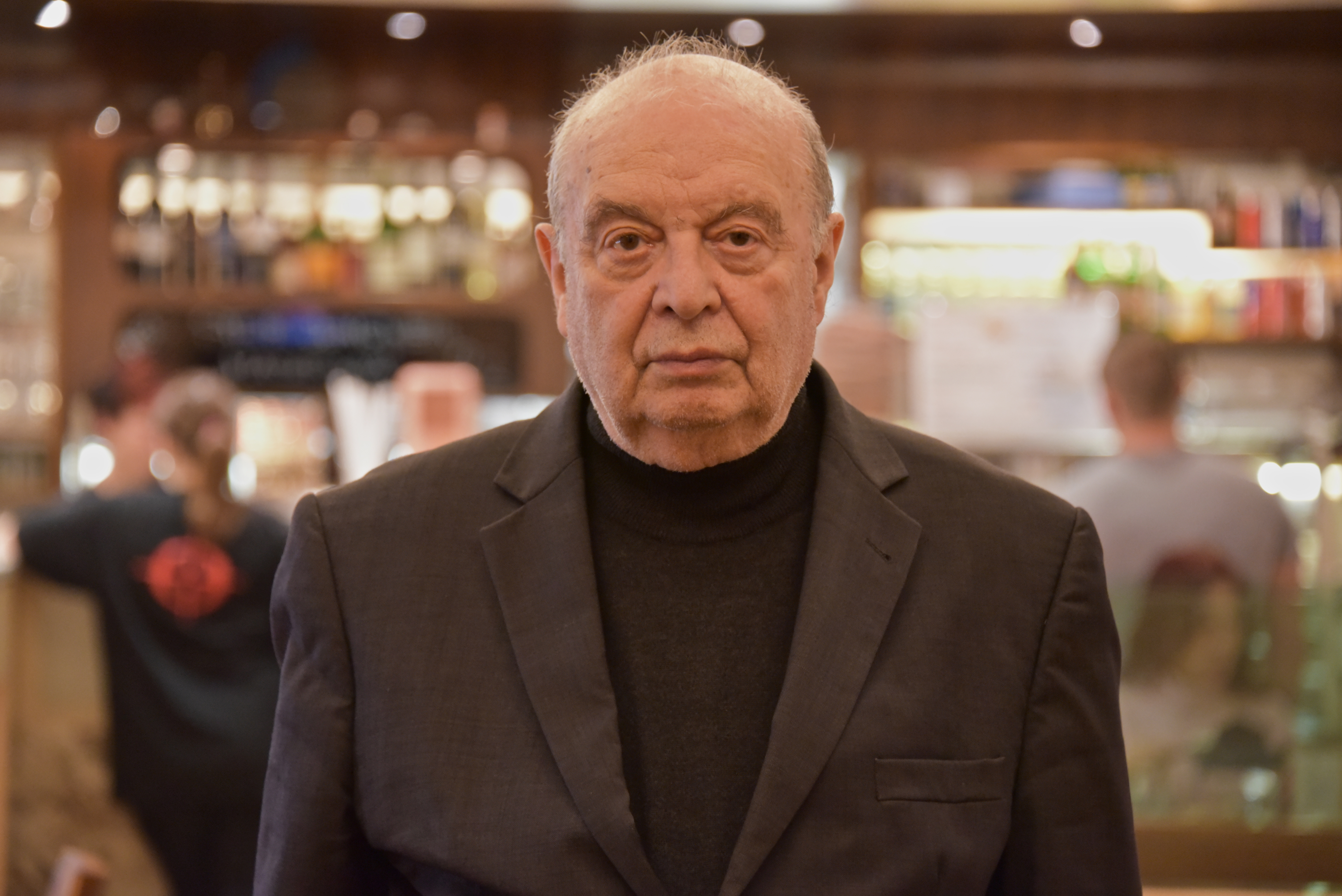 Rudolf Gelbard at the Burgtheater, Vienna 2014